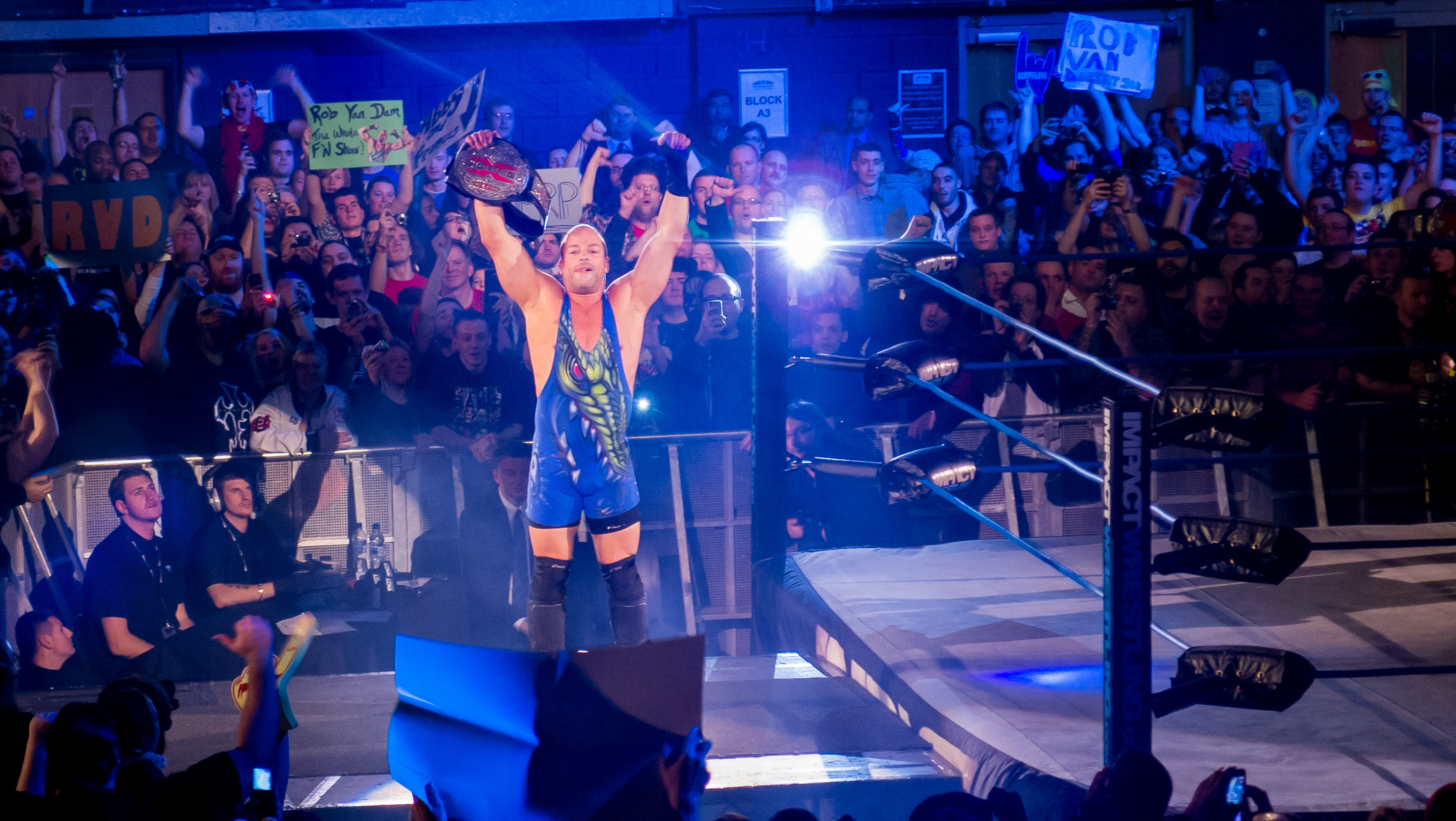 Rob Van Dam at TNA Impact Live in London 2013